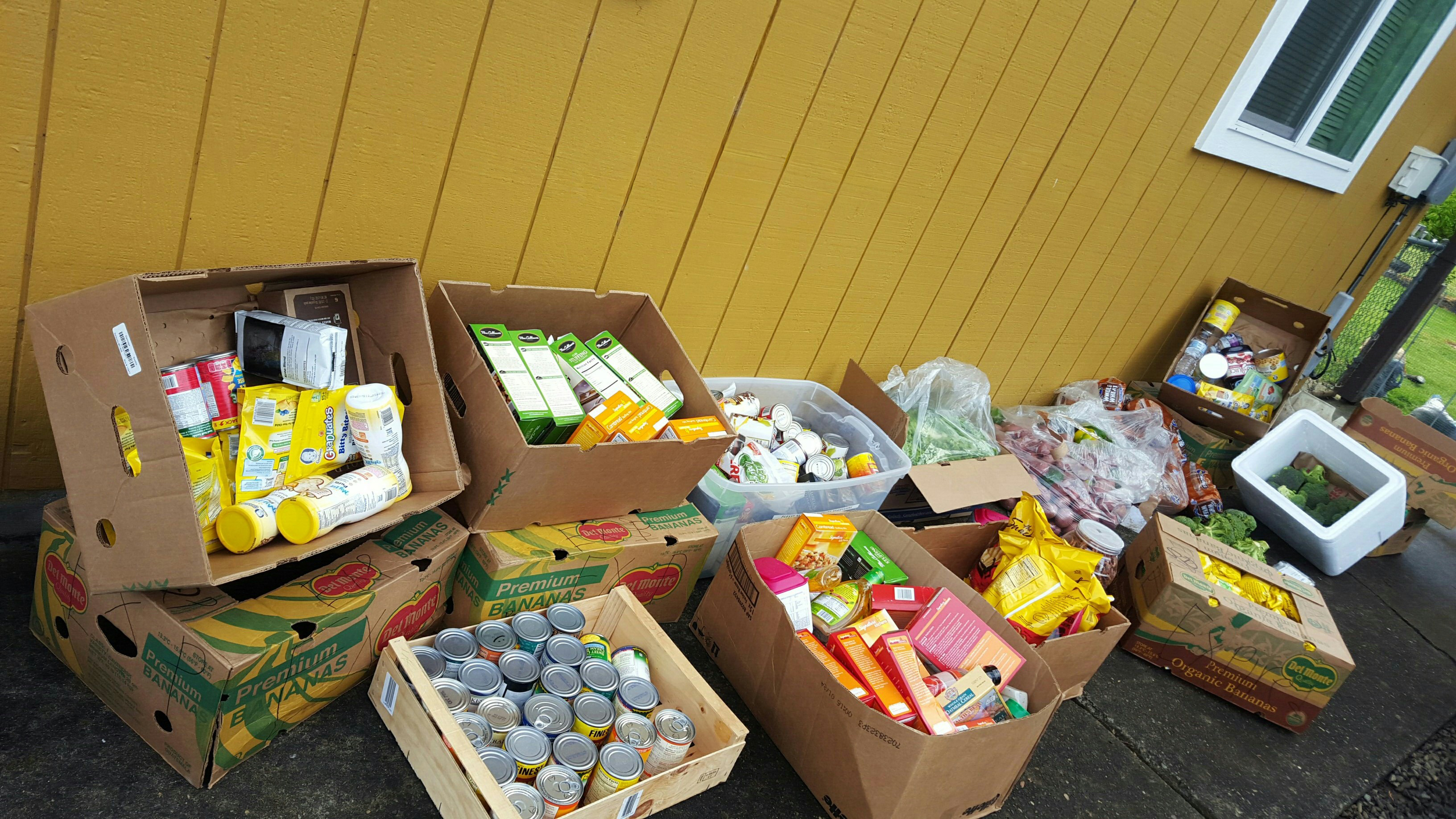 Food with no expiration dates but only just past the 'best by' dates by a couple months scheduled to go to the trash saved and given to those in need.